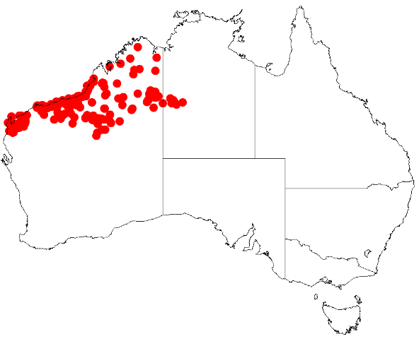 Acacia stellaticeps Occurrence data from Australasia Virtual Herbarium downloaded from on 8 December 2018